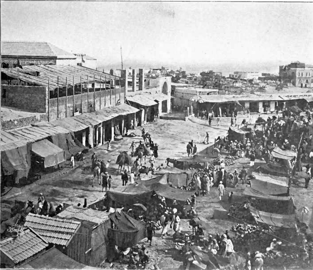 Jaffa 1906